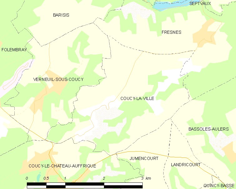 Map of French commune: Coucy-la-Ville Map commune FR insee code 02219.png